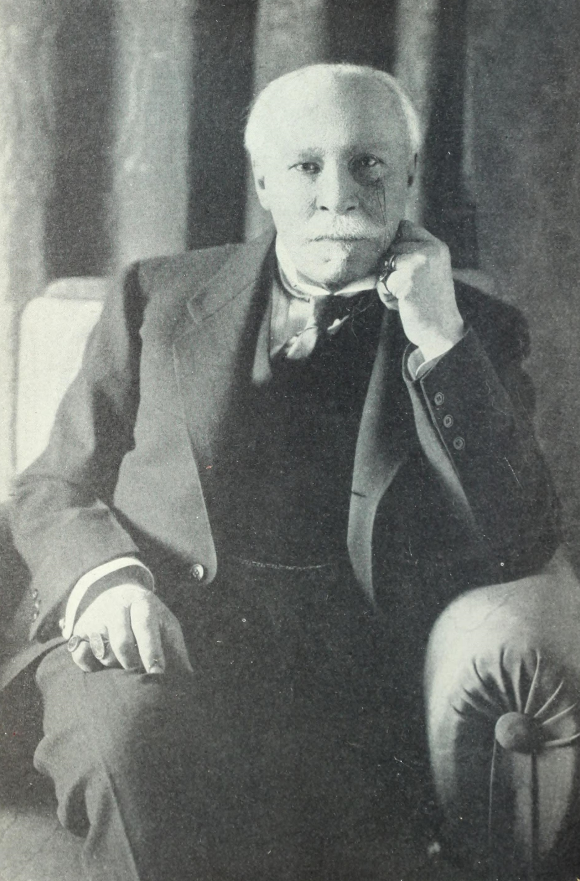 Portrait of George Bakhmeteff